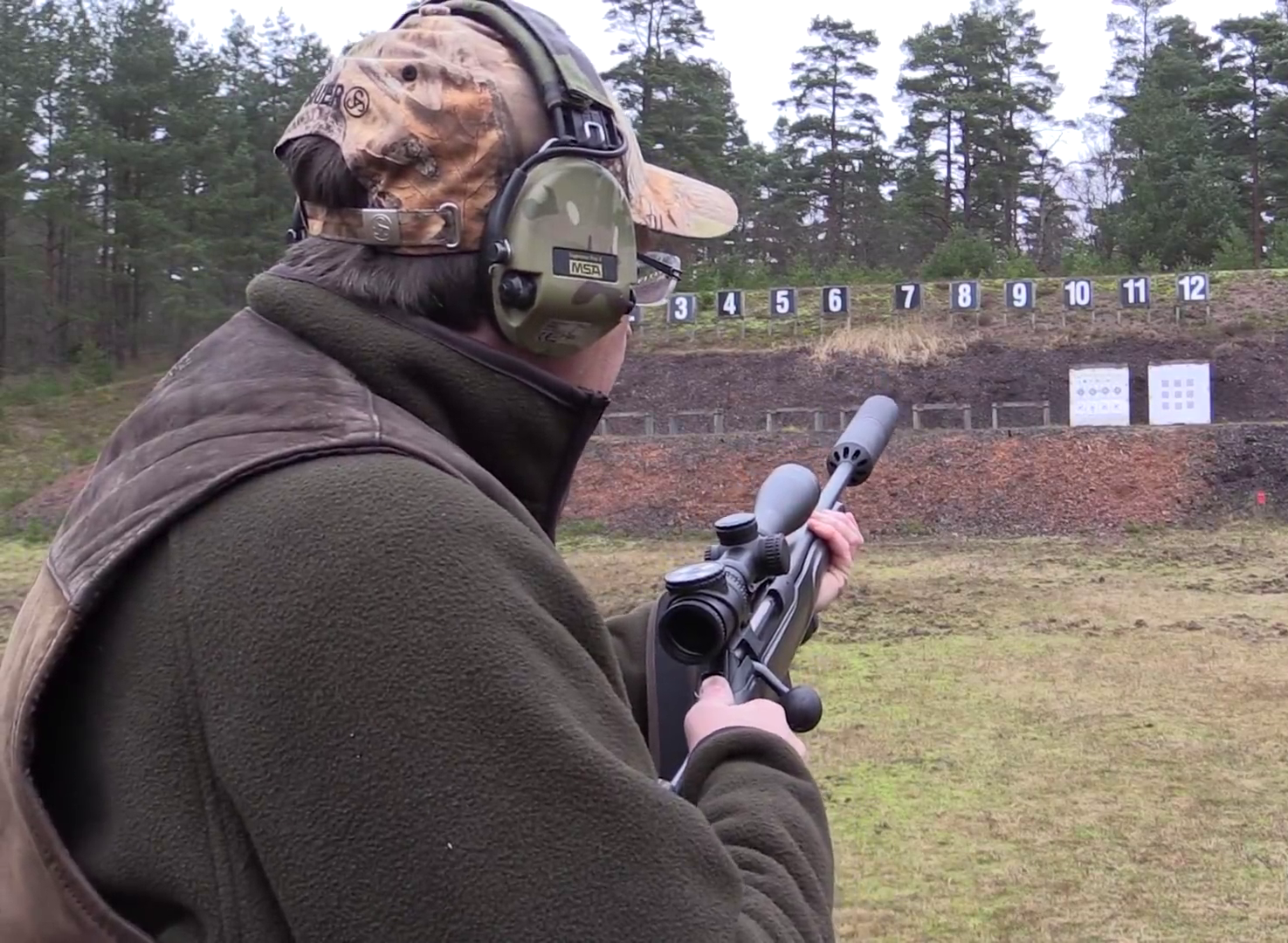 Swedish hunter in pre-firing position on a shooting range in Sweden (removed watermarks by cropping)